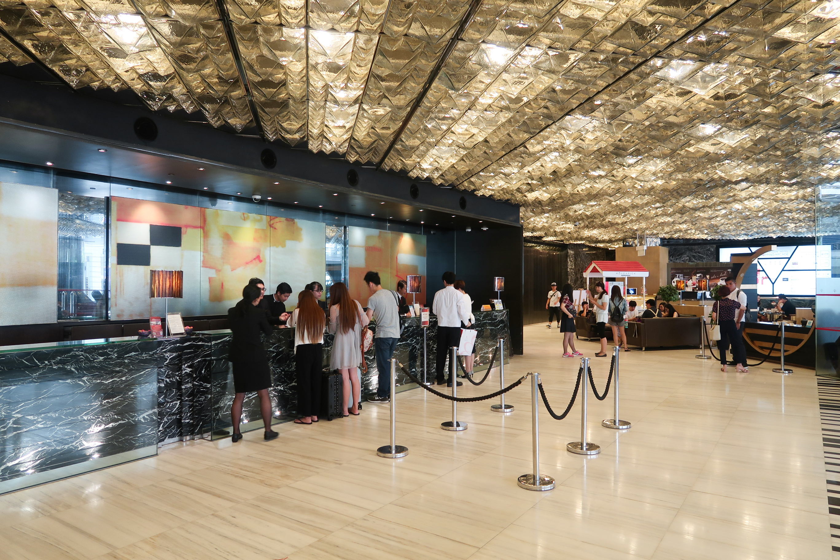 Kowloon Hotel lobby